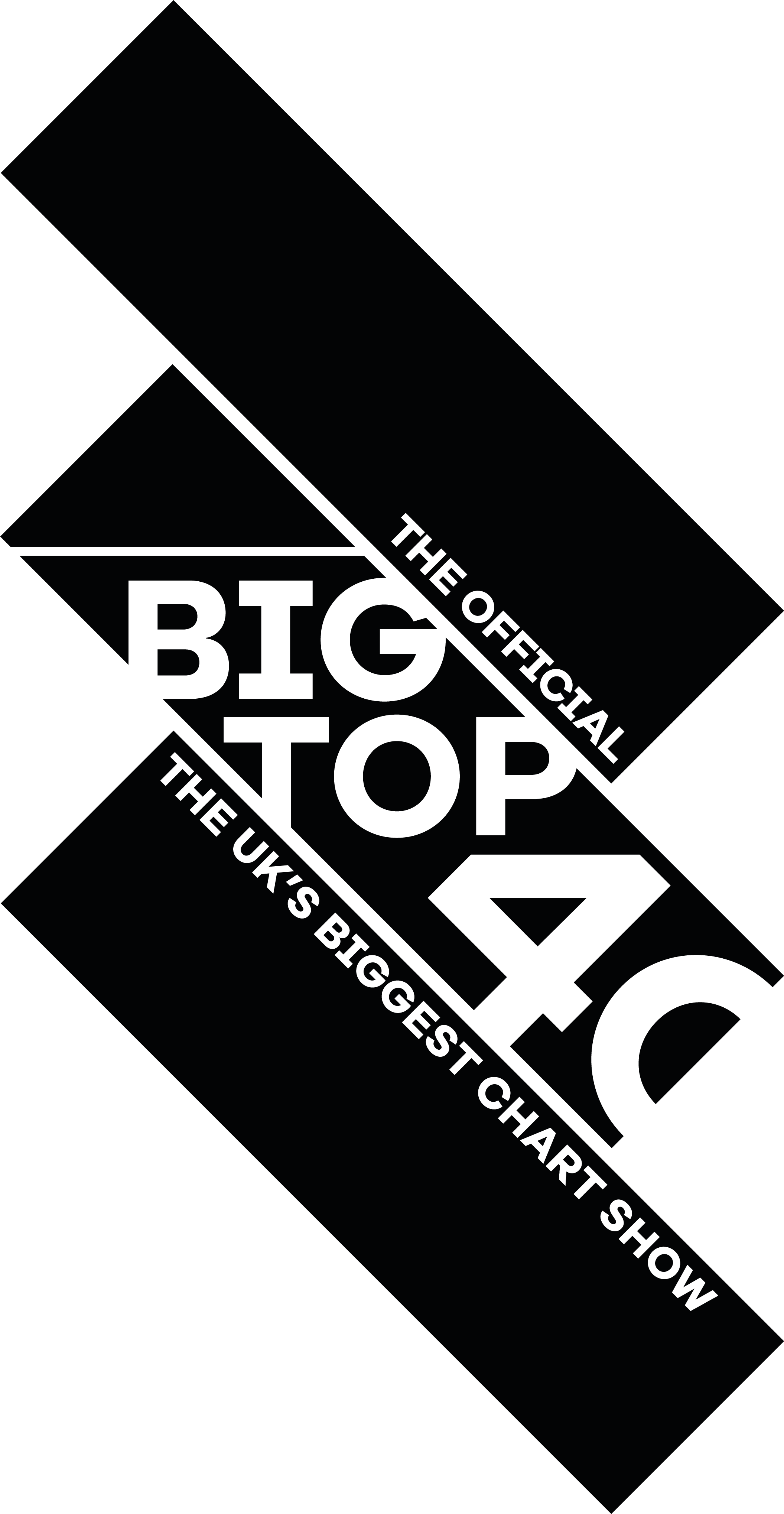 Logo for The Official Big Top 40